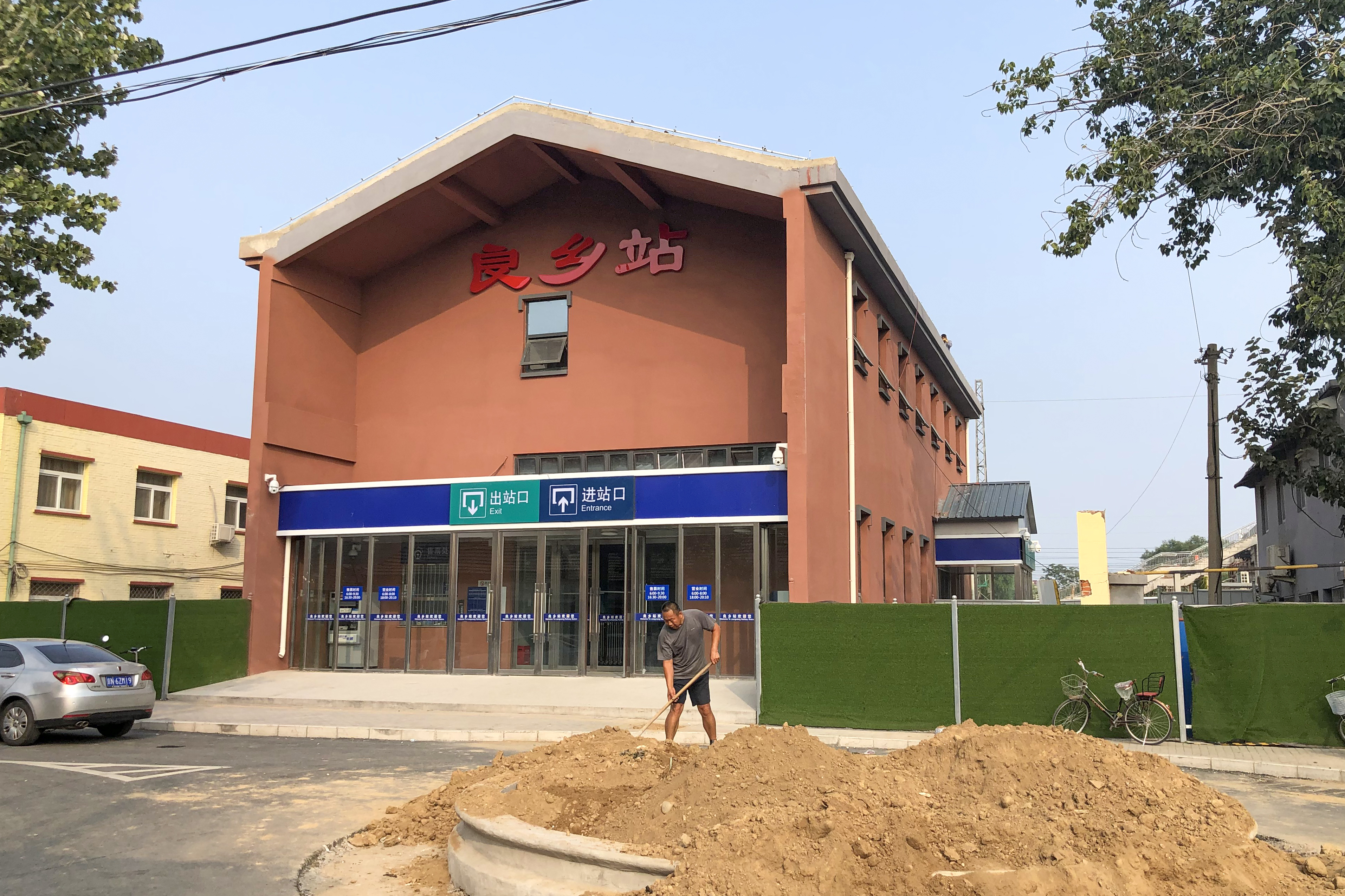 Finally made it to this station and its "station name ticket". Ticketing hours 06:00-09:30 and 16:30-20:00; Opening hours 06:00-08:00 and 18:00-20:10.